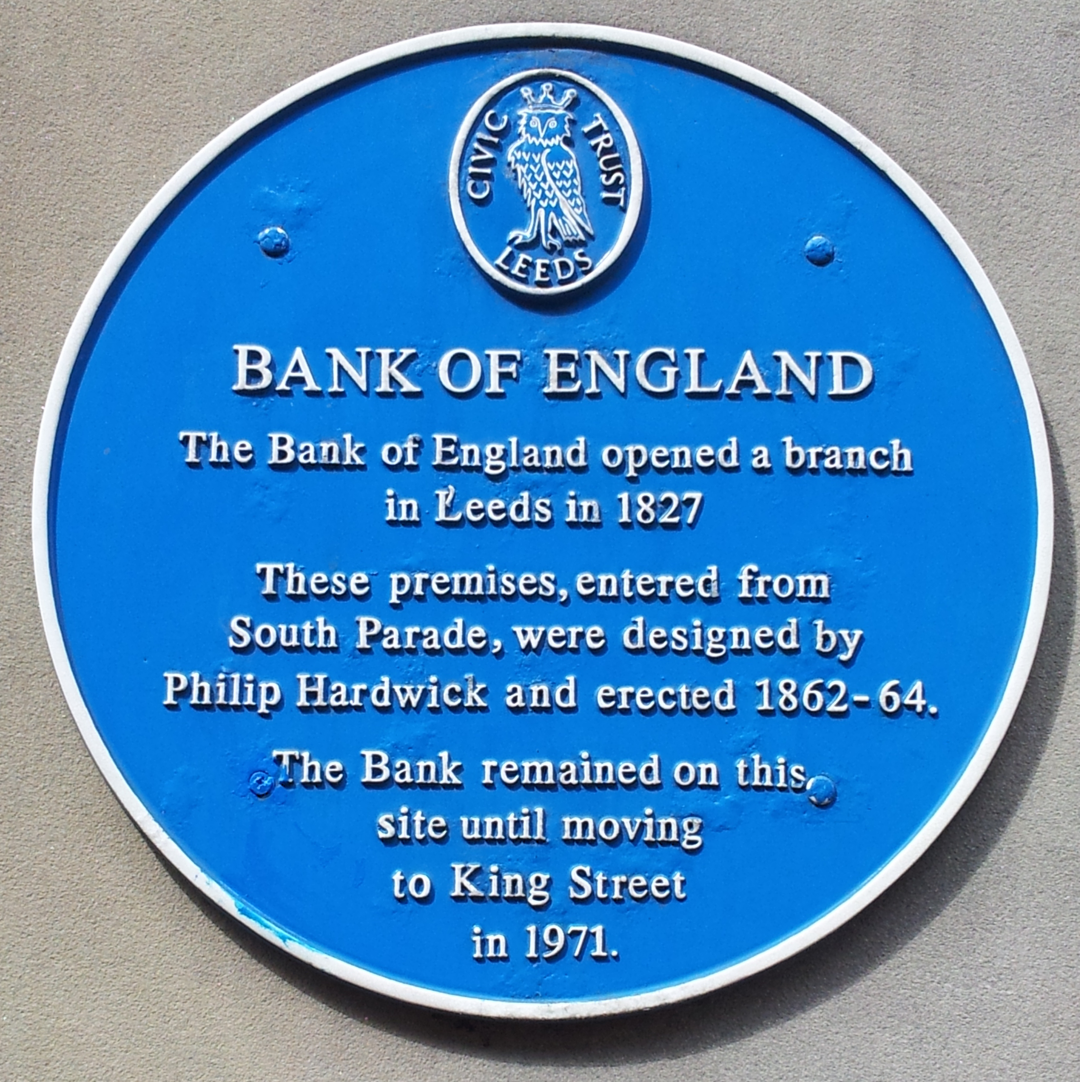 Bank of England